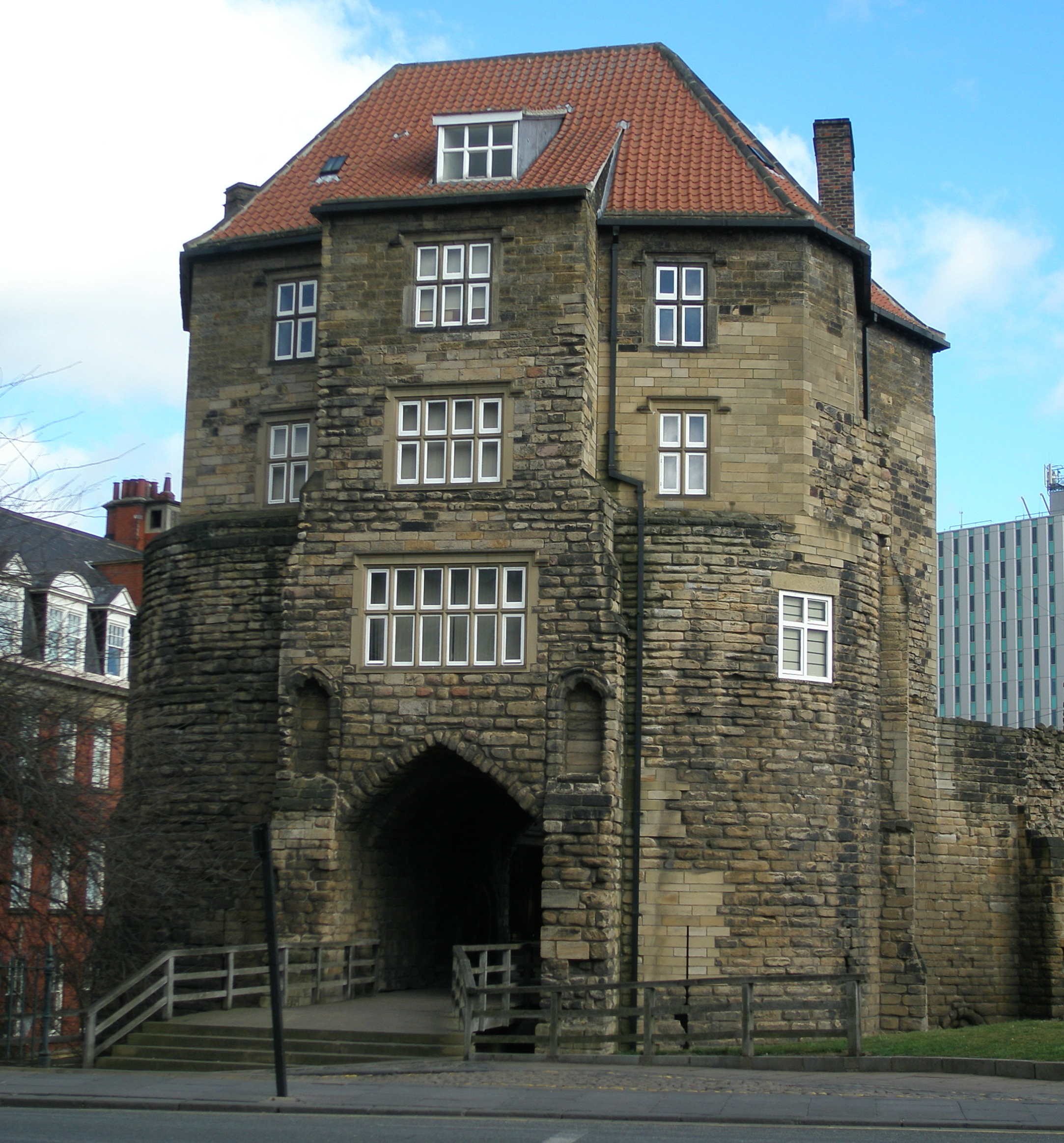 Front view of Blackgate (former gatehouse of the castle) in Newcastle-upon-Tyne Summary Photo taken by myself